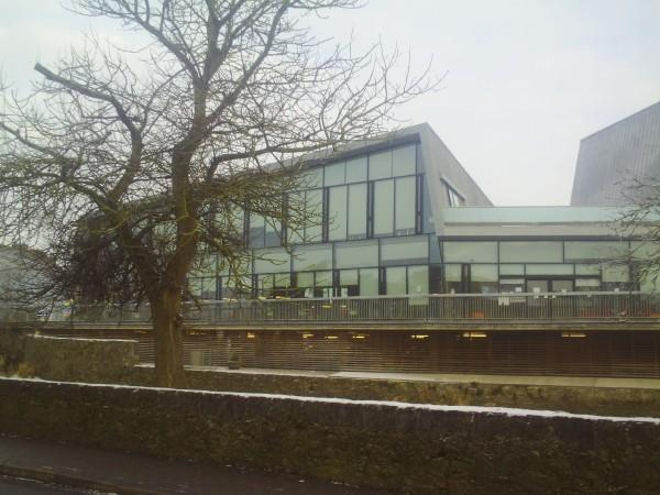 source